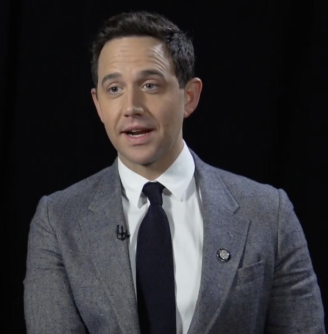 Santino Fontana interviewed by The Tony Awards in 2019